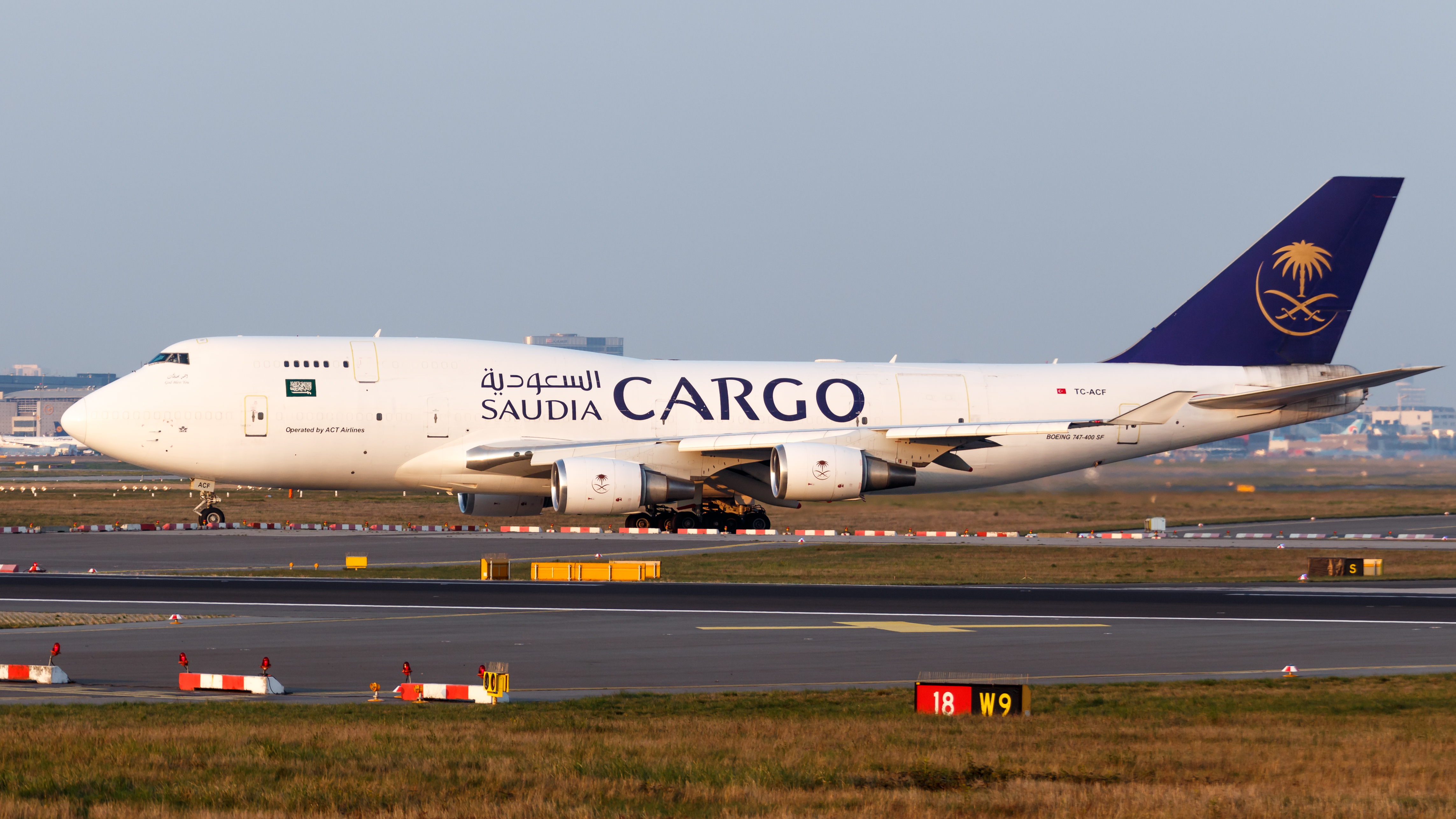 Saudia Cargo Boeing 747-400F at Frankfurt Airport